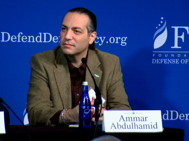 FDD - Washington DC.